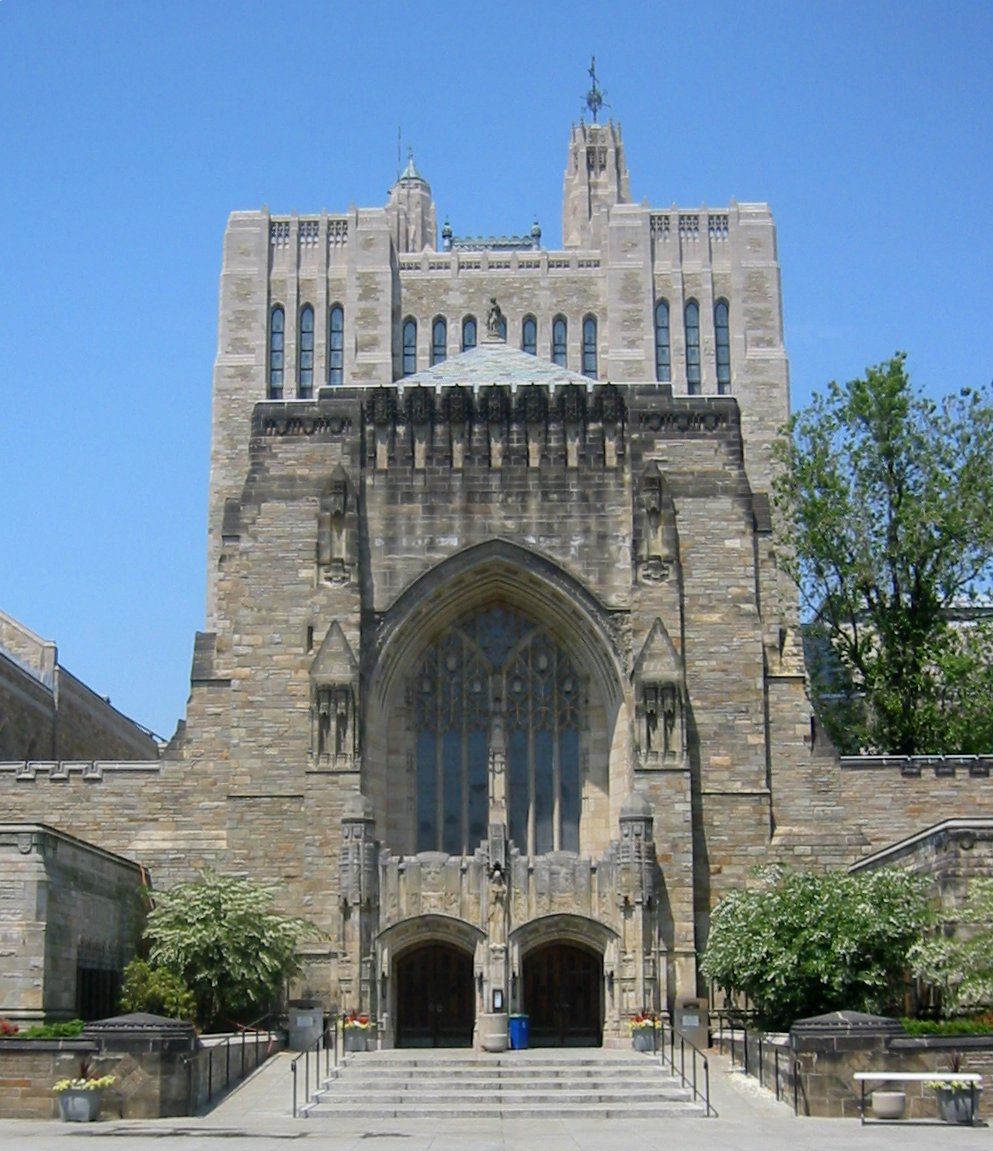 Yale's Sterling Memorial Library.